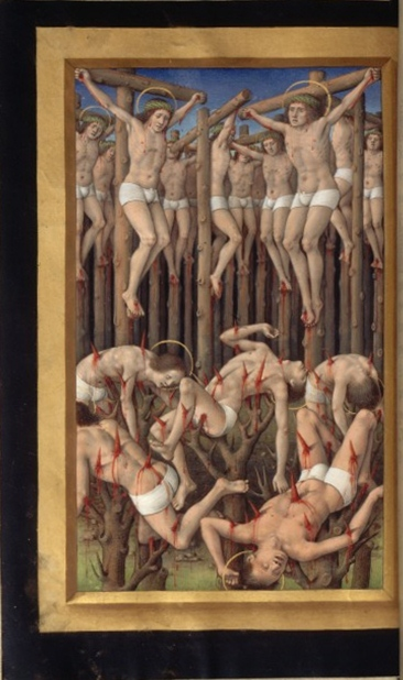 The Grandes Heures of Anne of Brittany (Les Grandes Heures d'Anne de Bretagne in French) is a book of hours, commissioned by Anne of Brittany, Queen of France to two kings in succession, and illuminated in Tours or perhaps Paris by Jean Bourdichon between 1503 and 1508. It is now in the Bibliothèque nationale de France as Ms lat. 9474.